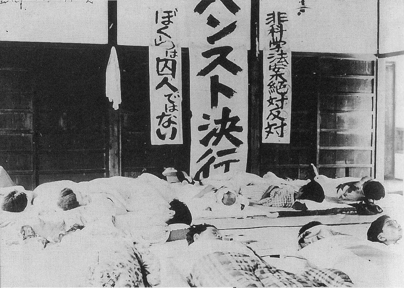 Patients of Hansen's disease who go on a hunger strike to protest